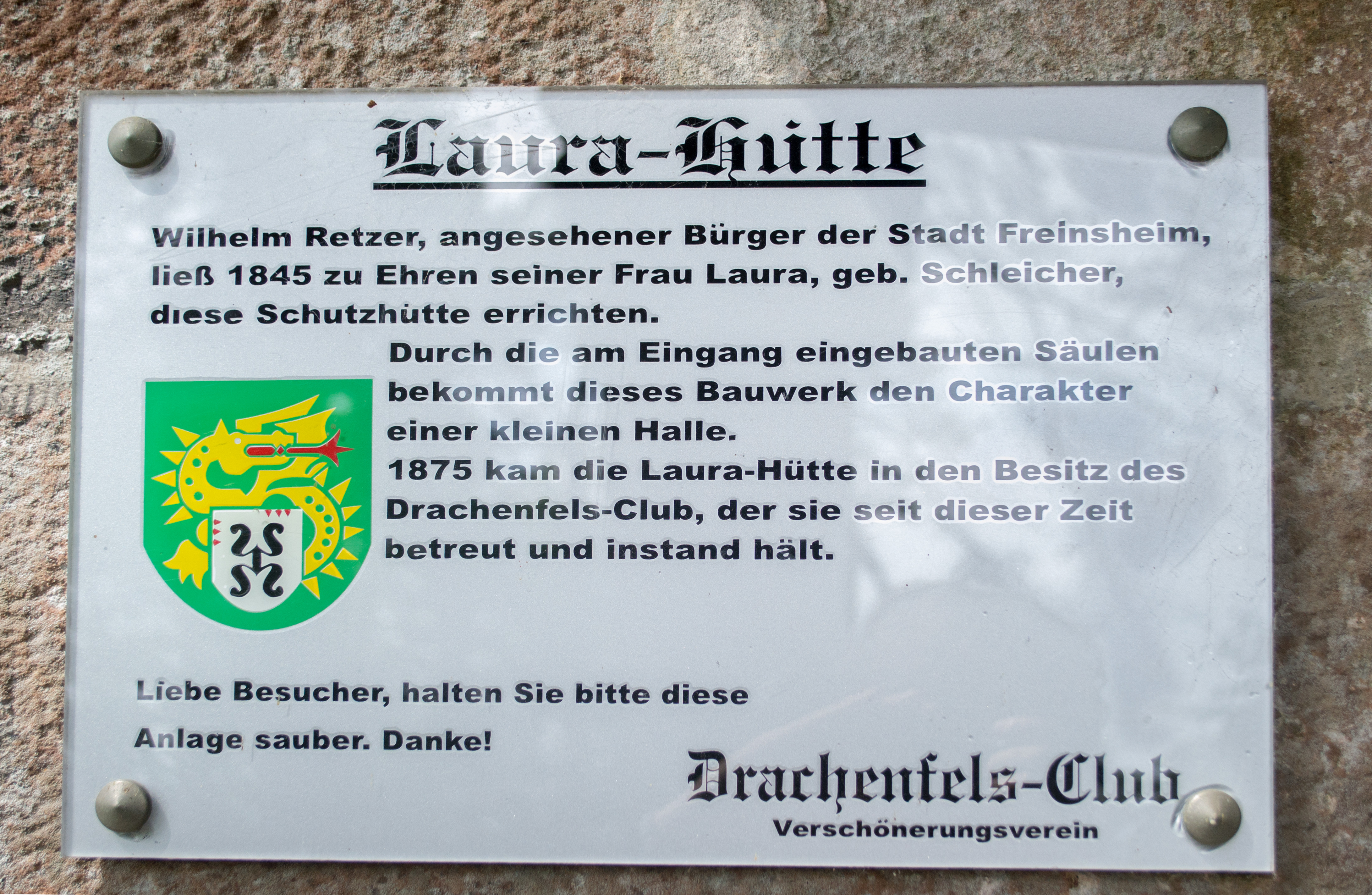 Board with information regarding the Laurahütte.